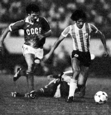 Ramón Díaz v the USSR